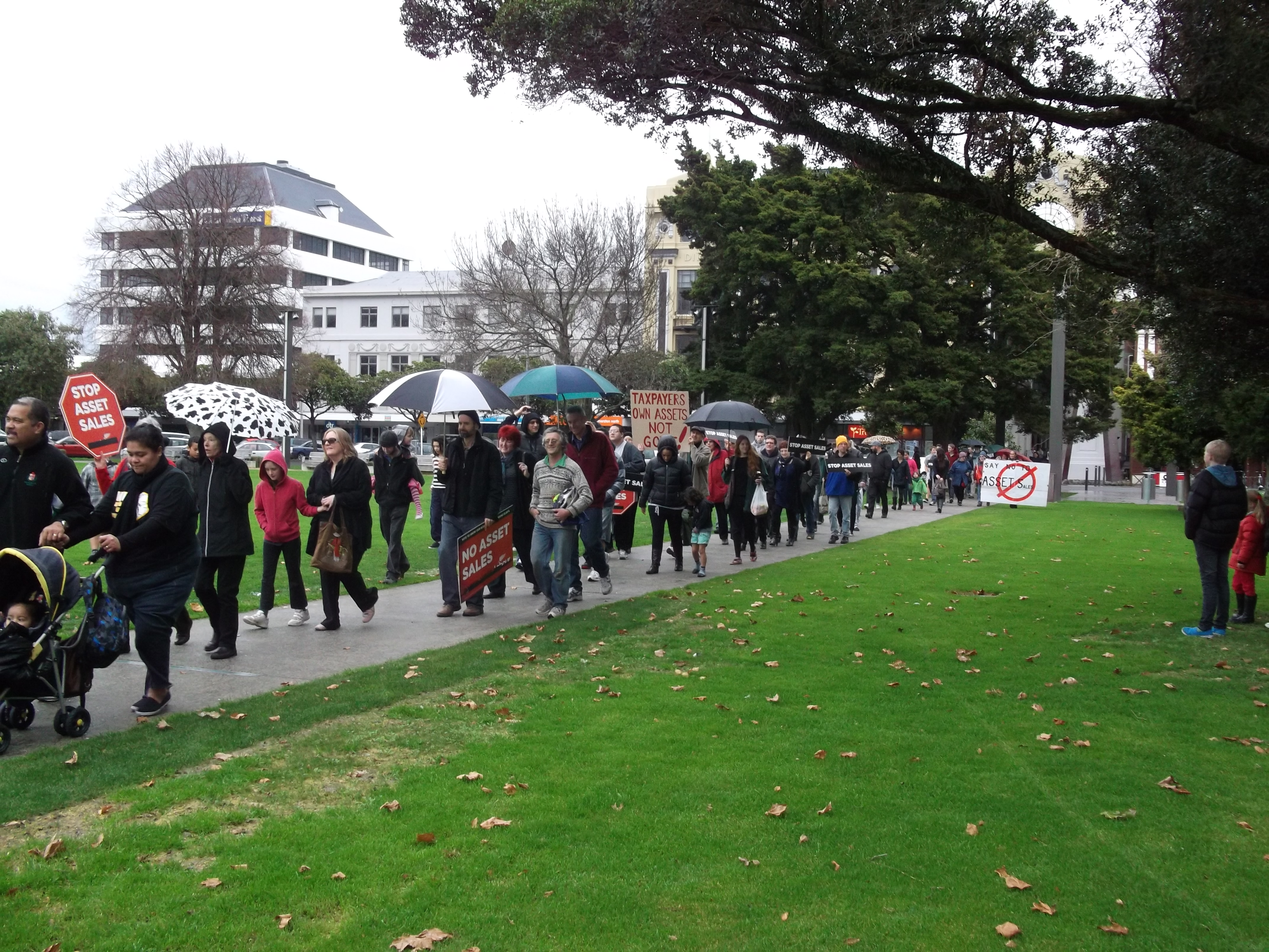 Photo taken at a rally against state-owned enterprise privatization, held in Palmerston North, New Zealand on 14 July 2012. The rally was part of nationwide protests against the privatization plans.